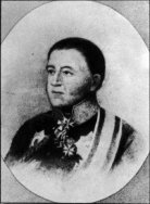 Prussian general Georg Dubislav Ludwig von Pirch (1763 – 1838) who served in Napoleonic Wars.